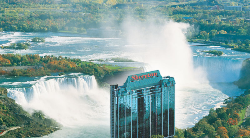 Niagara Falls Sheraton Hotel in Ontario, Canada